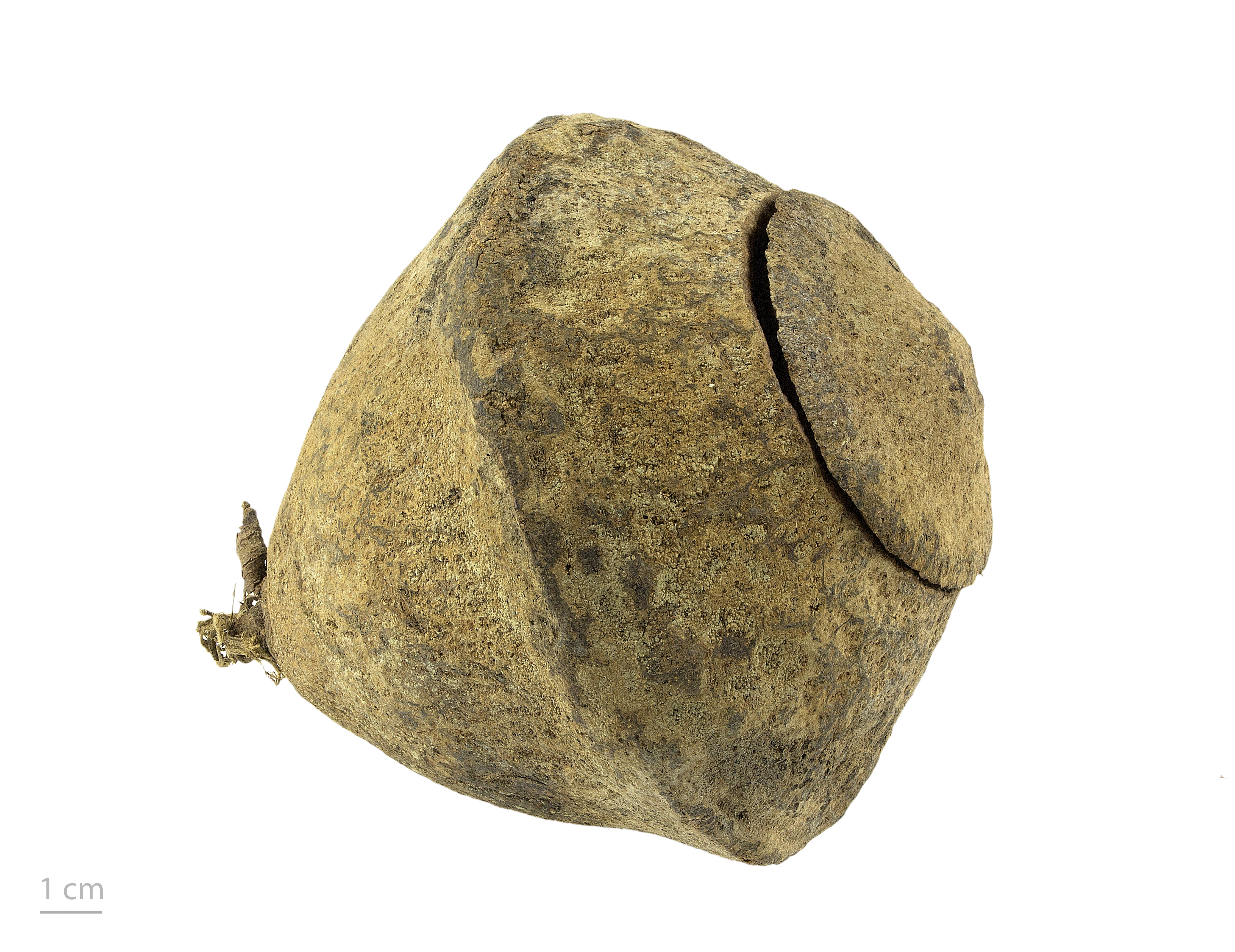 Lecythis zabucajo, monkey pot, seeds